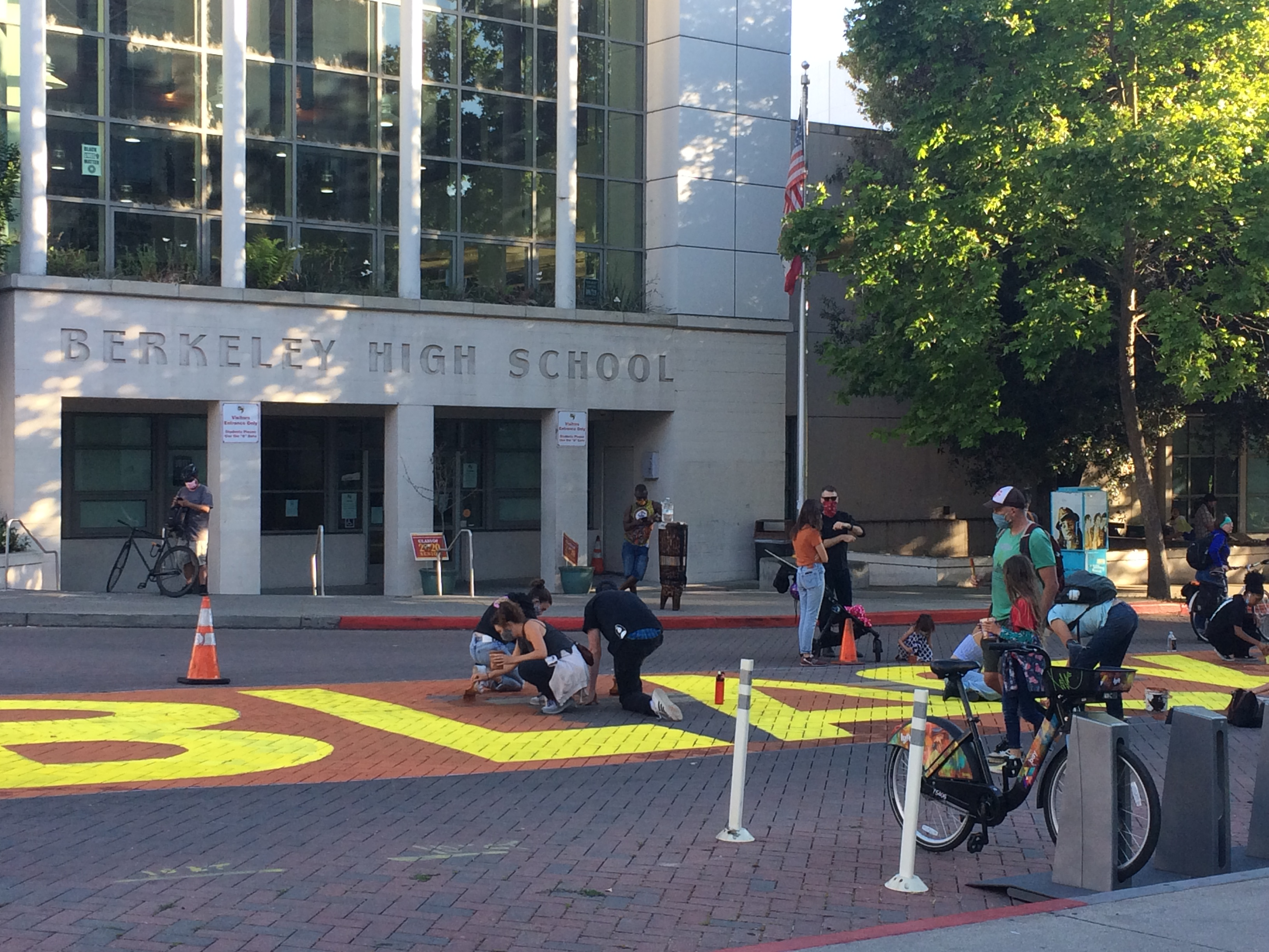 Berkeley High School Students paint Black Lives Matter, minutes after approval by City Council to... well... do the same thing.